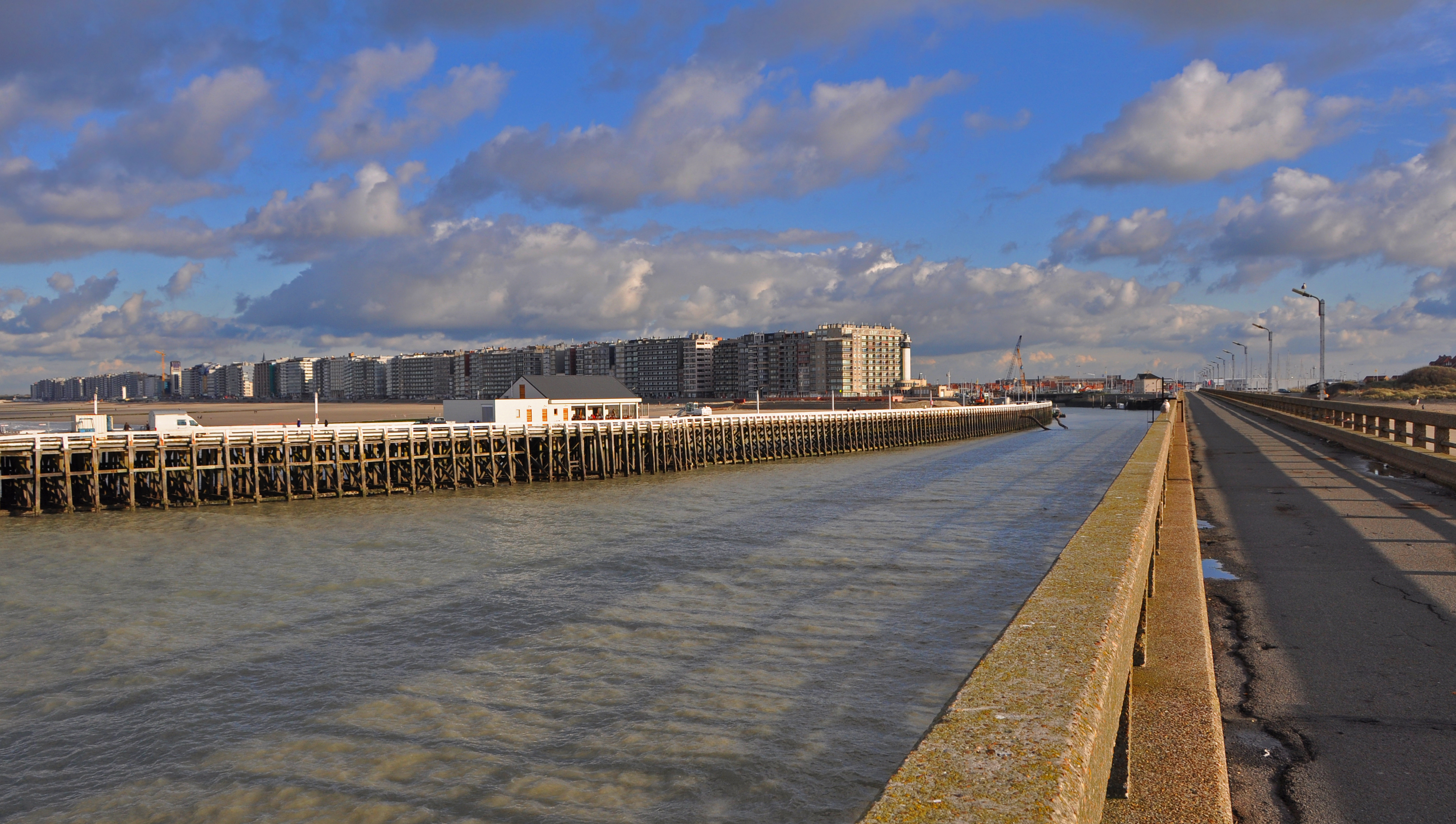 Blankenberge (Belgium): port entrance